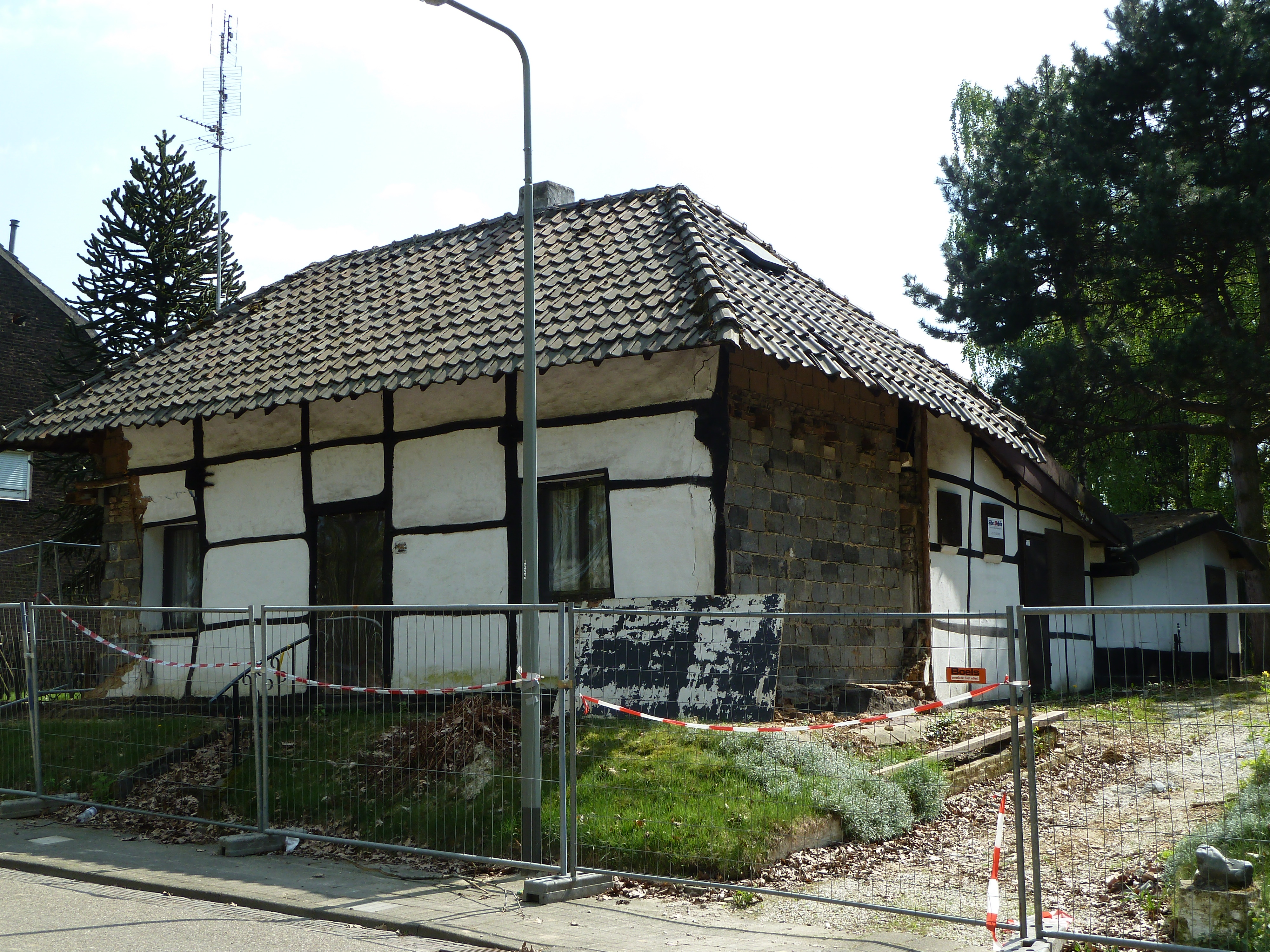 Bouwbergstraat 78, Brunssum, Limburg, the Netherlands